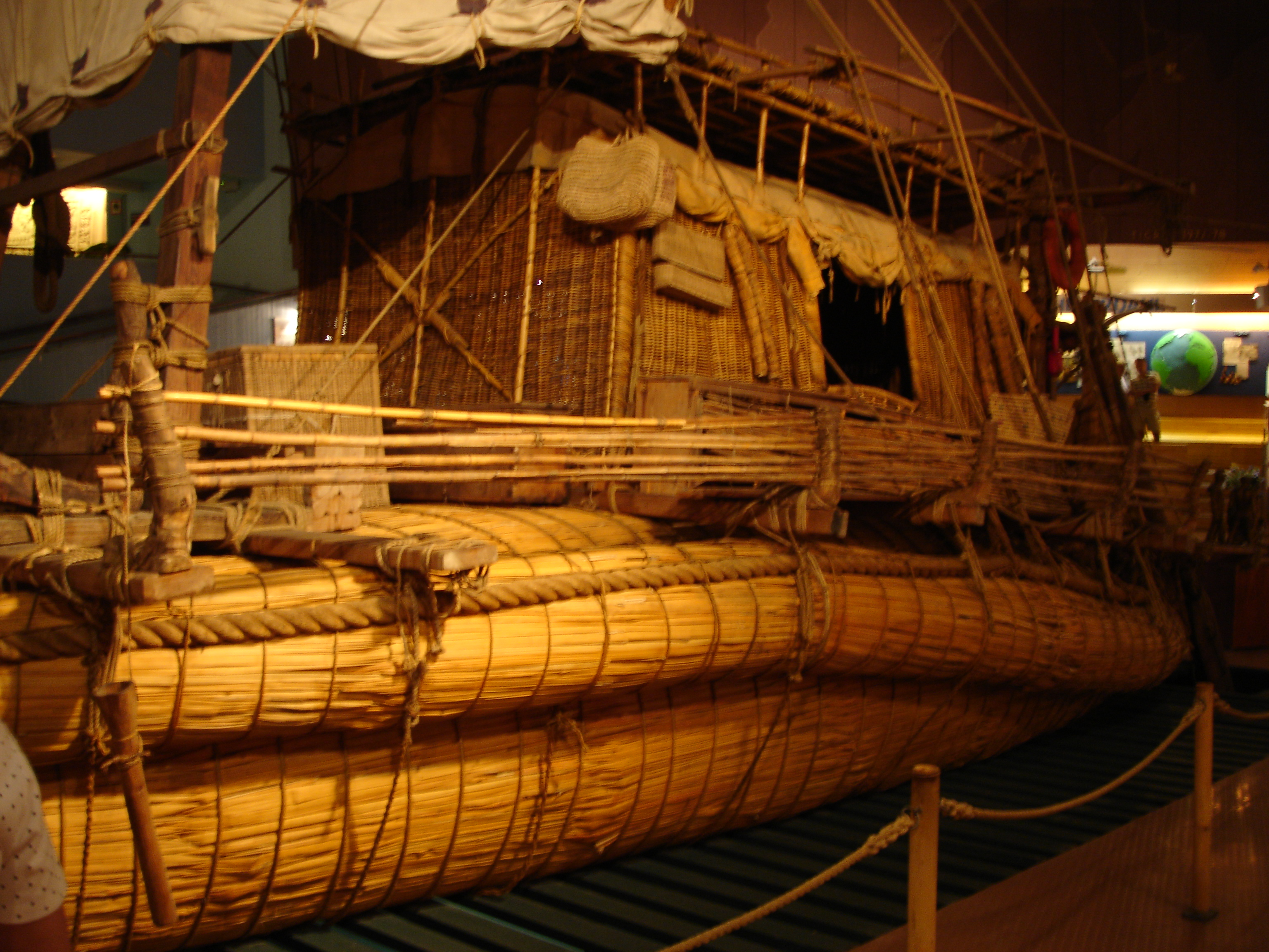 View of Ra II in the Kon-Tiki museum.